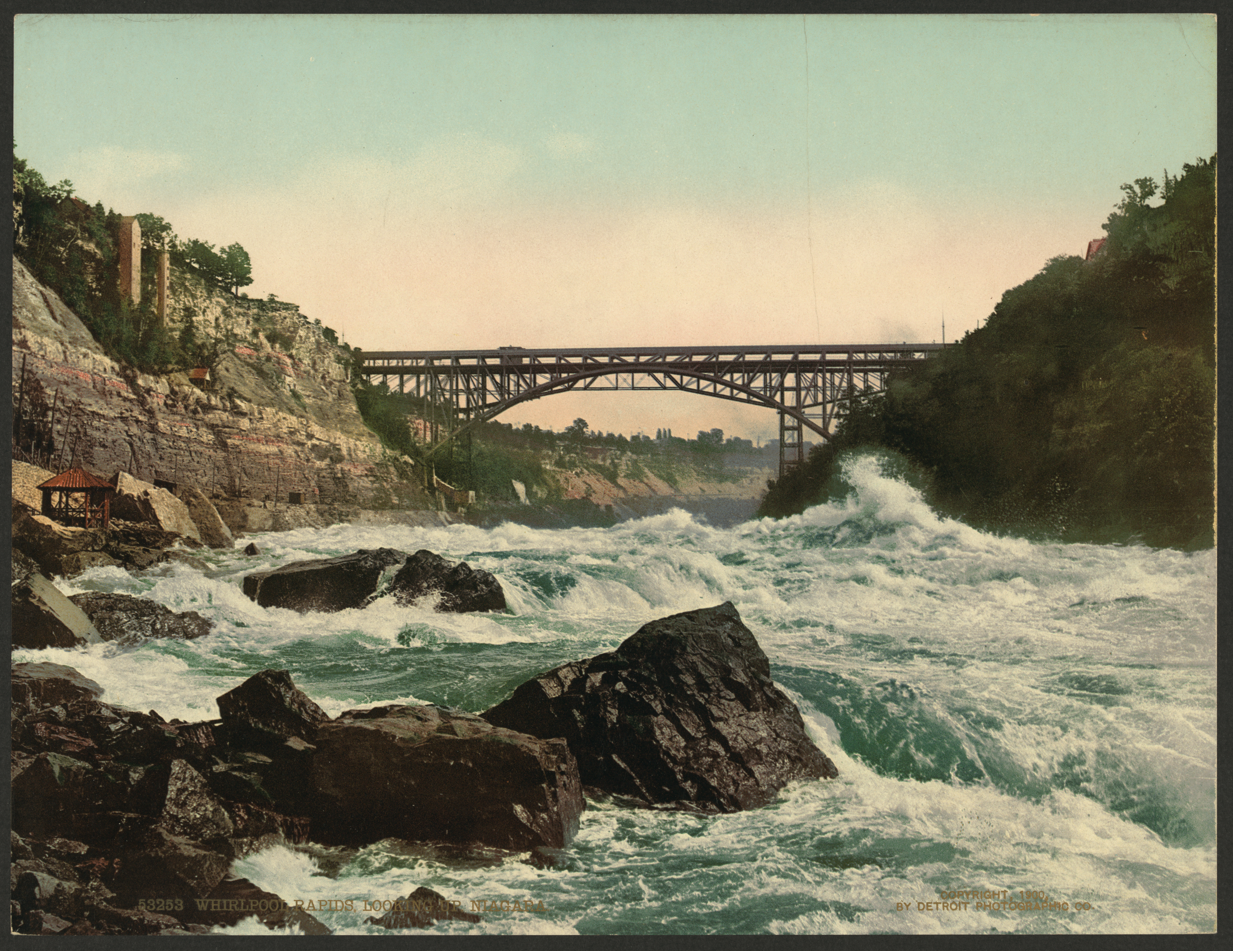 Whirlpool Rapids Bridge, Niagara River, New York